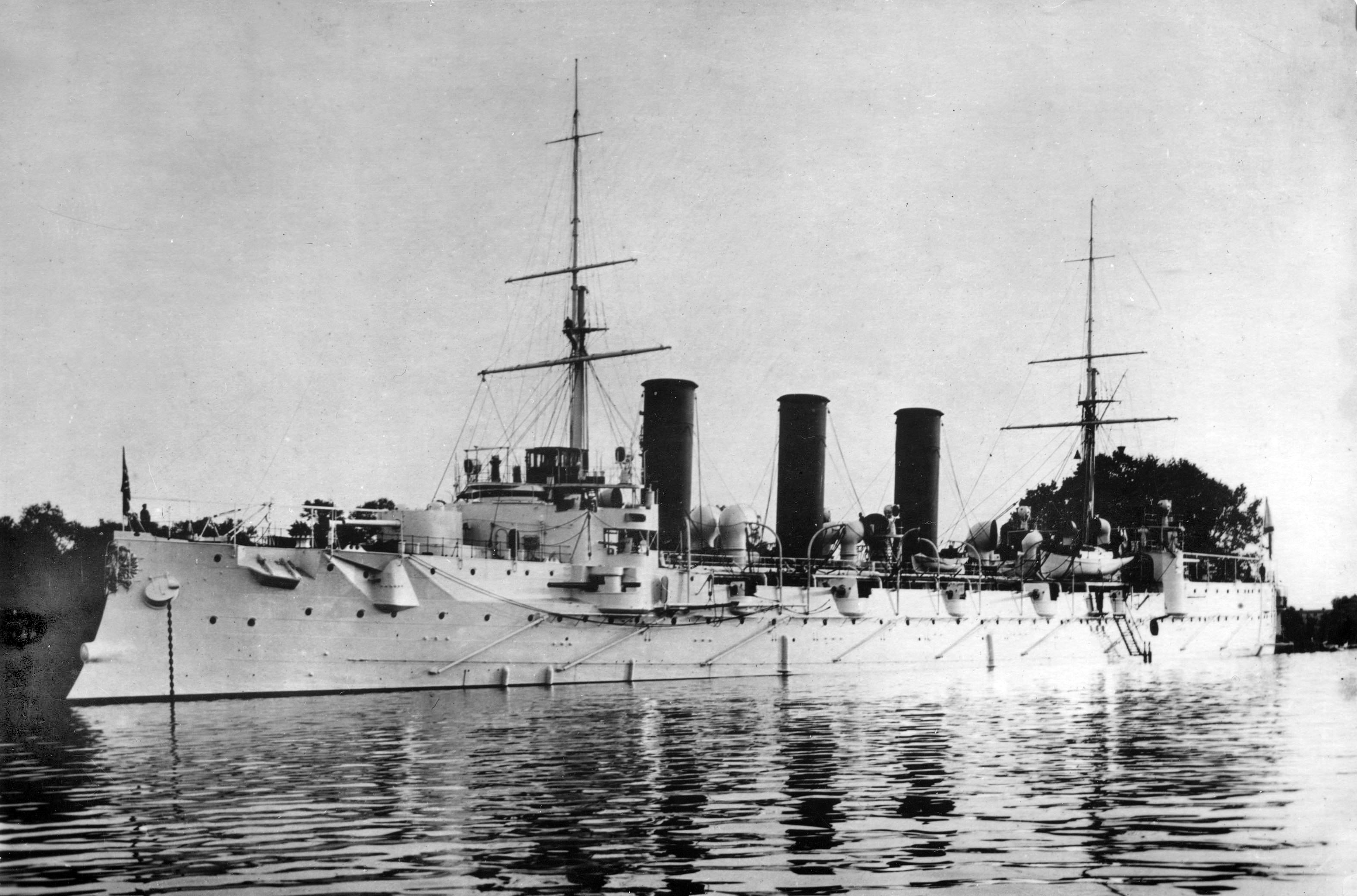 The Imperial Russian protected cruiser Bogatyr' .